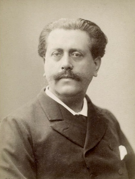 French writer Paul de Cassagnac